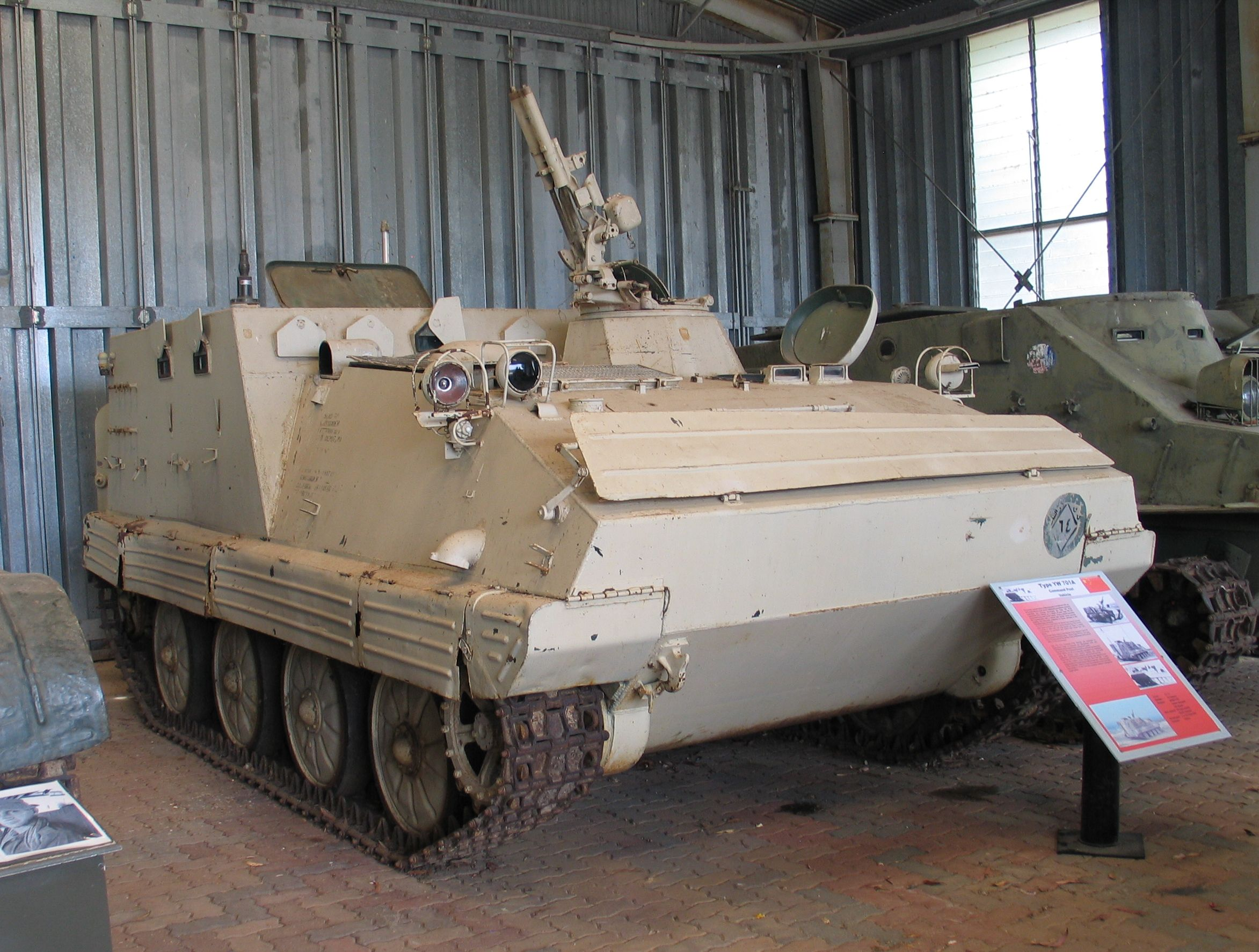 Chinese YW701 command vehicle, a variant of the YW531, in Royal Australian Armoured Corps Tank Museum, Puckapunyal, Victoria, Australia.